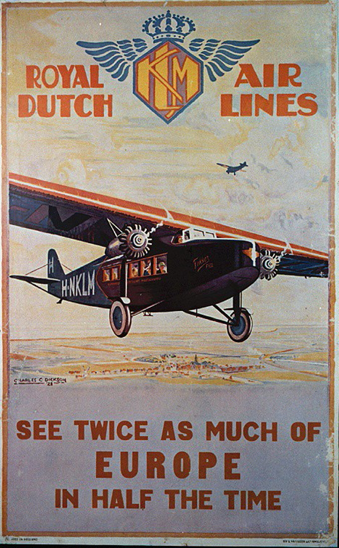 Poster from the Don Thomas Collection. Mr. Thomas was a collector of aircraft memorabilia who donated several posters to the San Diego Air and Space Museum. Poster signed "Charles C. Dickson '28" Repository: San Diego Air and Space Museum Archive